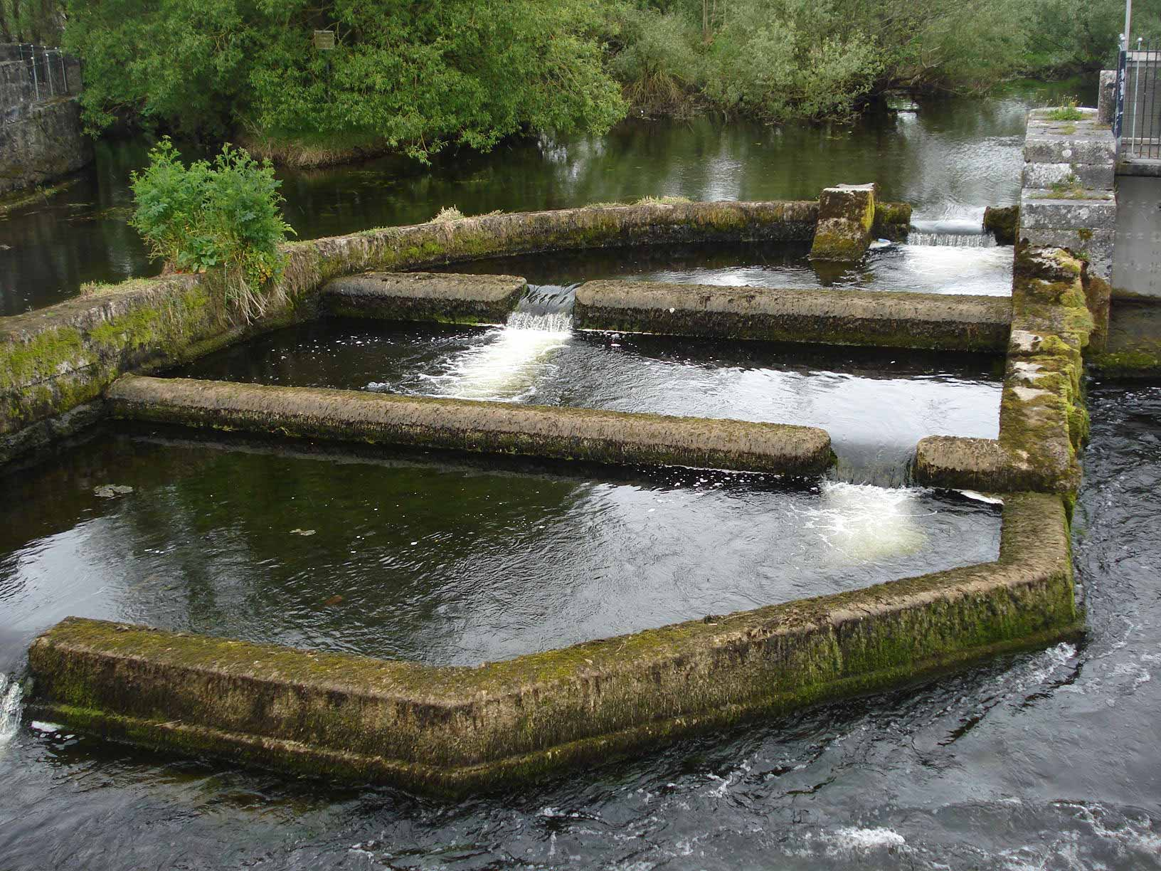 Fish ladder in the River Fergus in Ennis, County Clare, Ireland